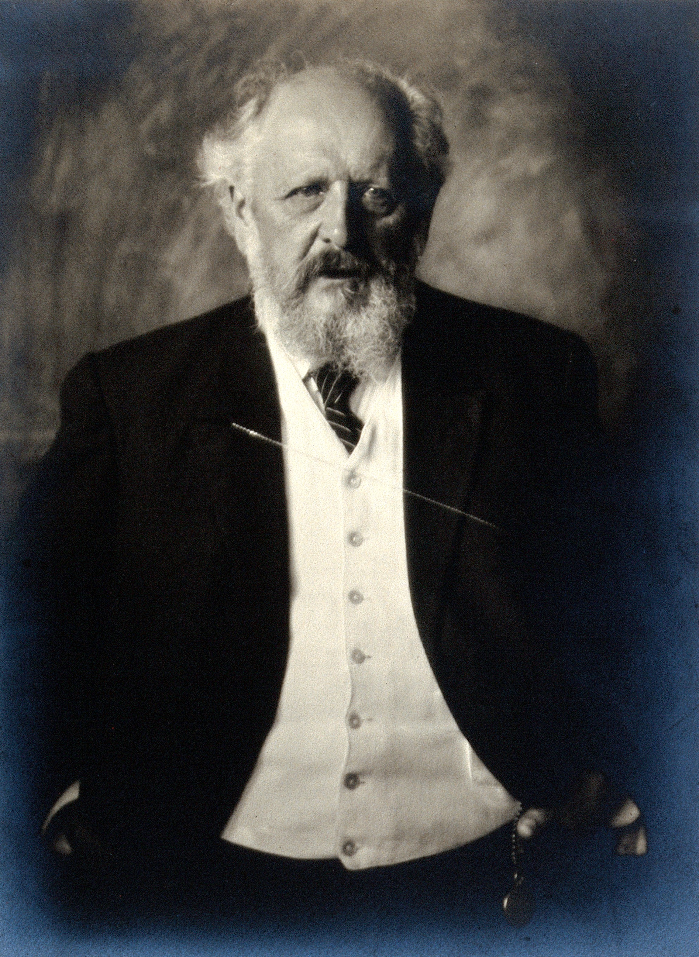 Alexander Tschirch. Photograph by Henn, 1926. Iconographic Collections Keywords: portrait photographs